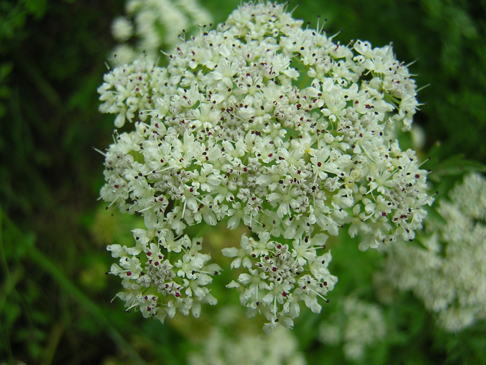 Oenanthe crocata (closeup) Source : [1]